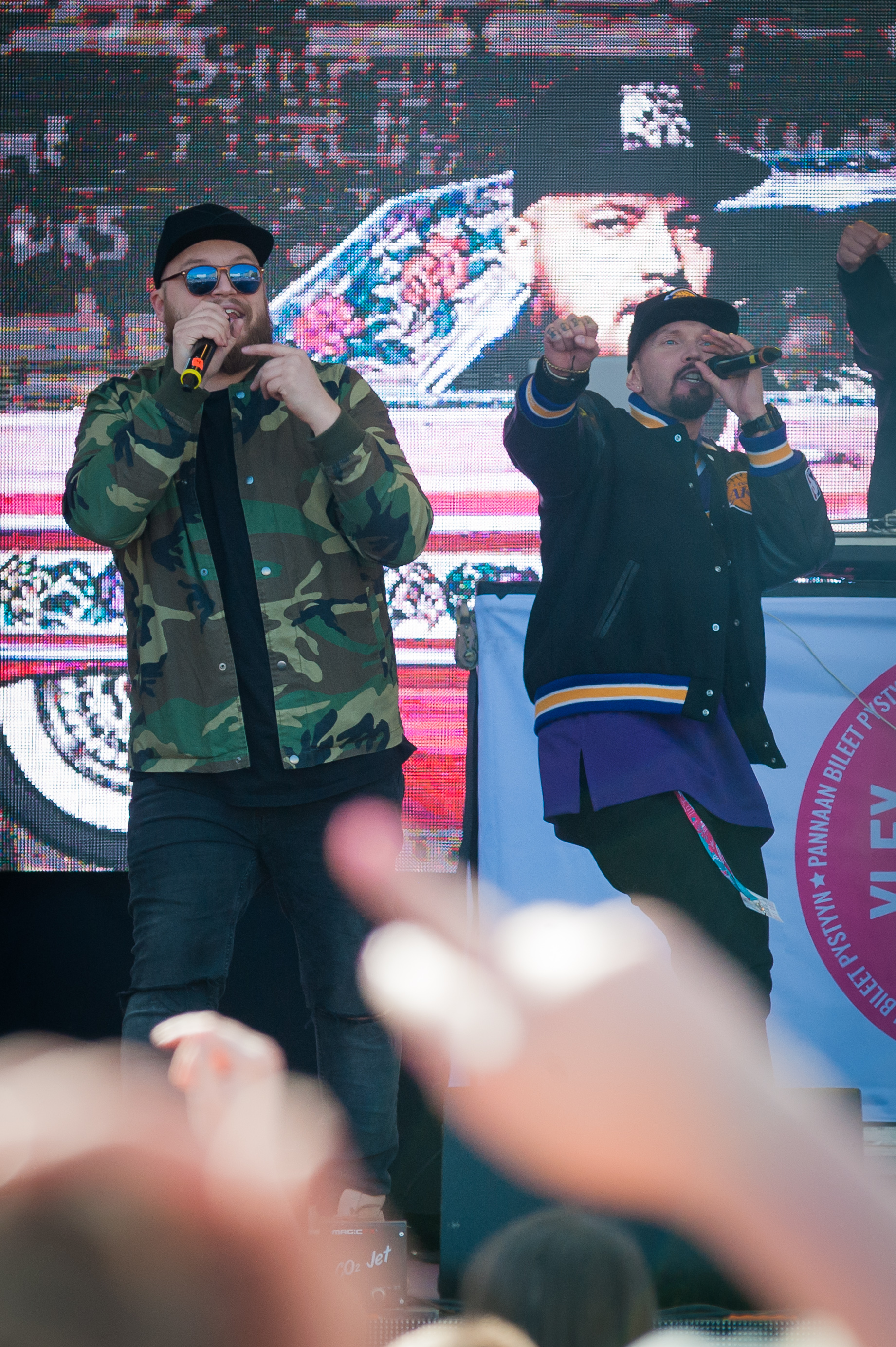 Finnish singer Kasmir and rapper Brädi performing at the 2017 YleXPop festival in Lahti, Finland.